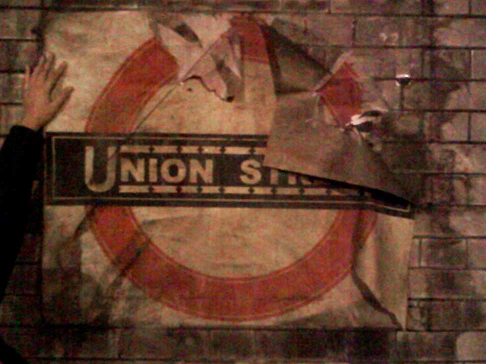 The fictional Union Street Tube station sign - London Underground roundel for the 2008 film the Escapist, seen in the disused Holborn Tram Station in London, UK, in the Kingsway Tram Tunnel